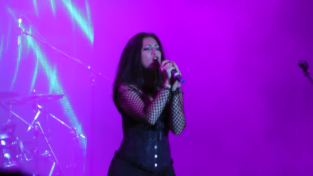 Emmanuelle Zoldan in kRock u Majbutne Festival in Kherson, Ukraine, 2016-06-17